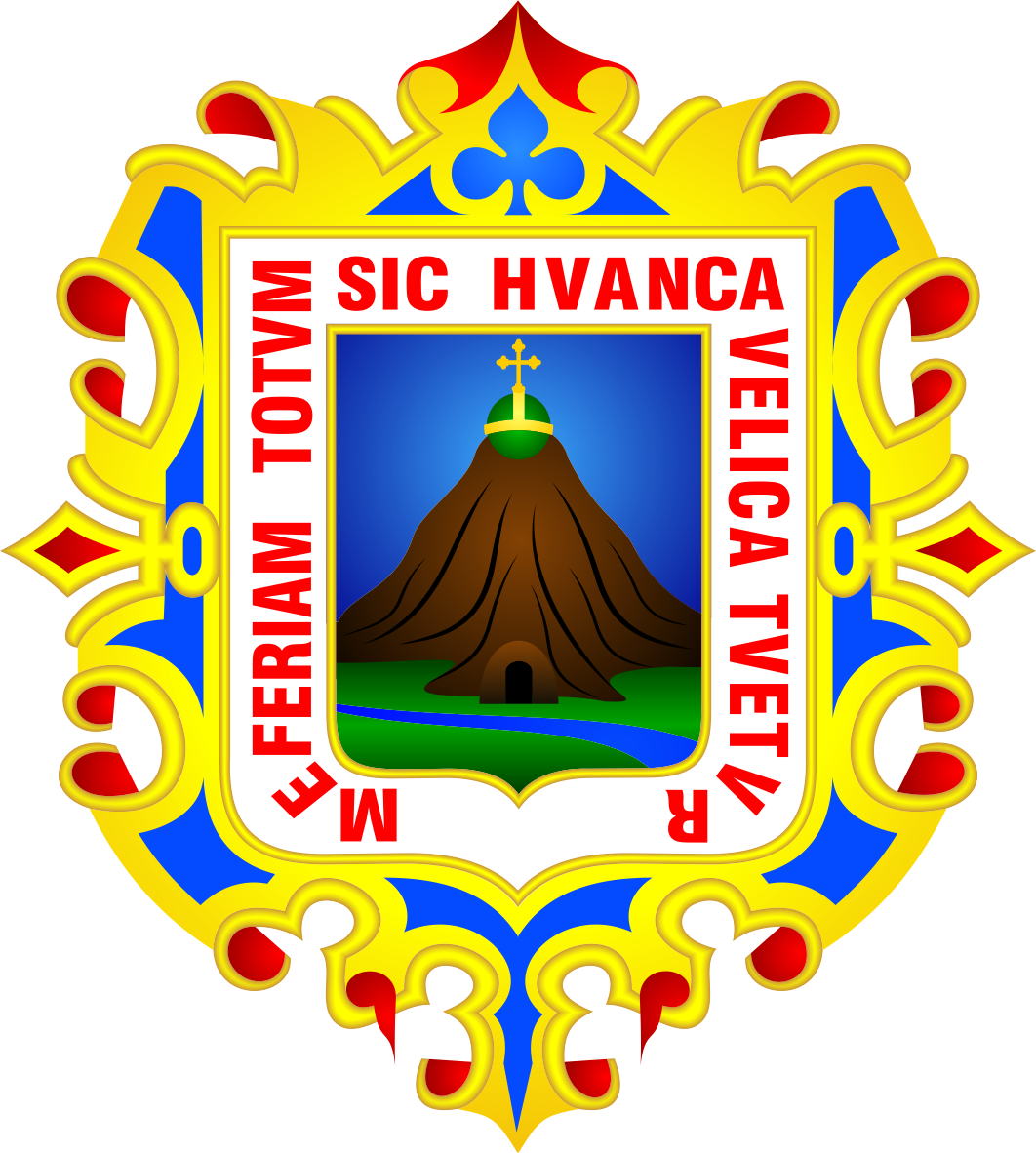 District of Huancavelica - Huancavelica - Huancavelica Region